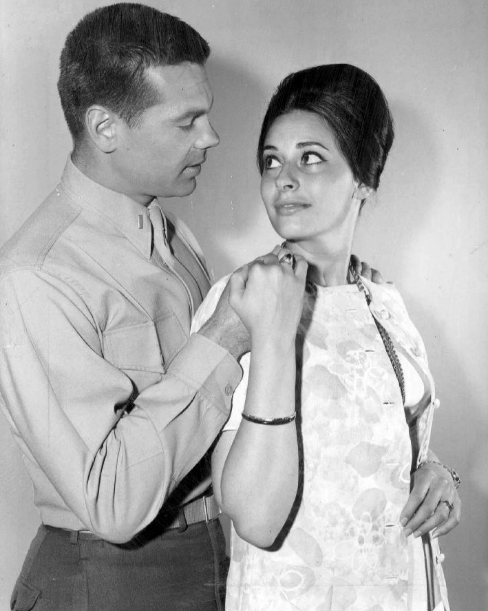 Photo of Gary Lockwood and guest star Ina Balin from the television program The Lieutenant.